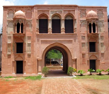 Nimtali Dewri, a historic Mughal residence located within the premises of the Asiatic Society of Bangladesh headquarters